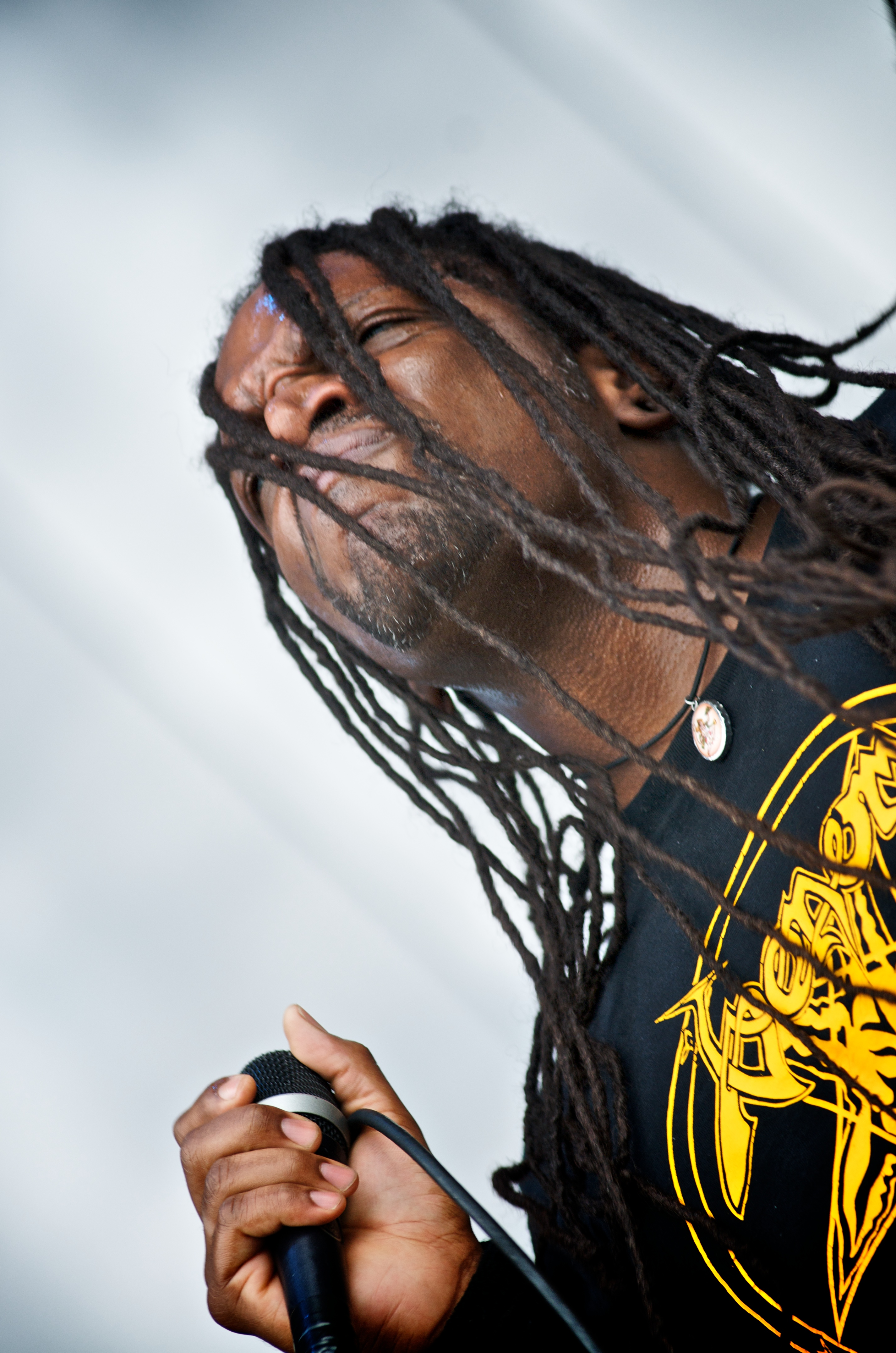 Sepultura in Maquinária Festival, occurred in November 7 2009 at São Paulo, Brazil.